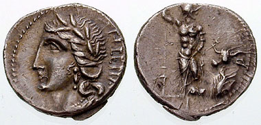 The Social War. Coinage of the Marsic Confederation. 89 BC. AR Denarius (3.60 gm). Bovianum mint(?). Laureate head of Italia left, Oscan legend right Helmeted Soldier standing front, head right, holding inverted spear, right foot on standard; left foot on uncertain object; recumbent bull to his right, Oscan "A" in exergue. Campana 137 (D94/R116); Sydenham 627; BMCRR 19. Toned, good VF. Rare. From the William N. Rudman Collection.